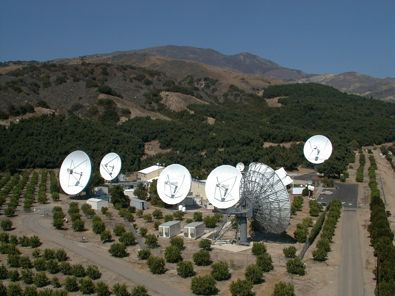 Aerial view of Santa Paula Land Earth Station